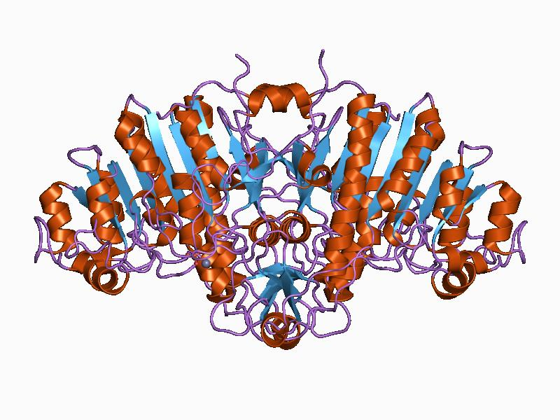 Cartoon representation of the molecular structure of protein registered with 1alk code.